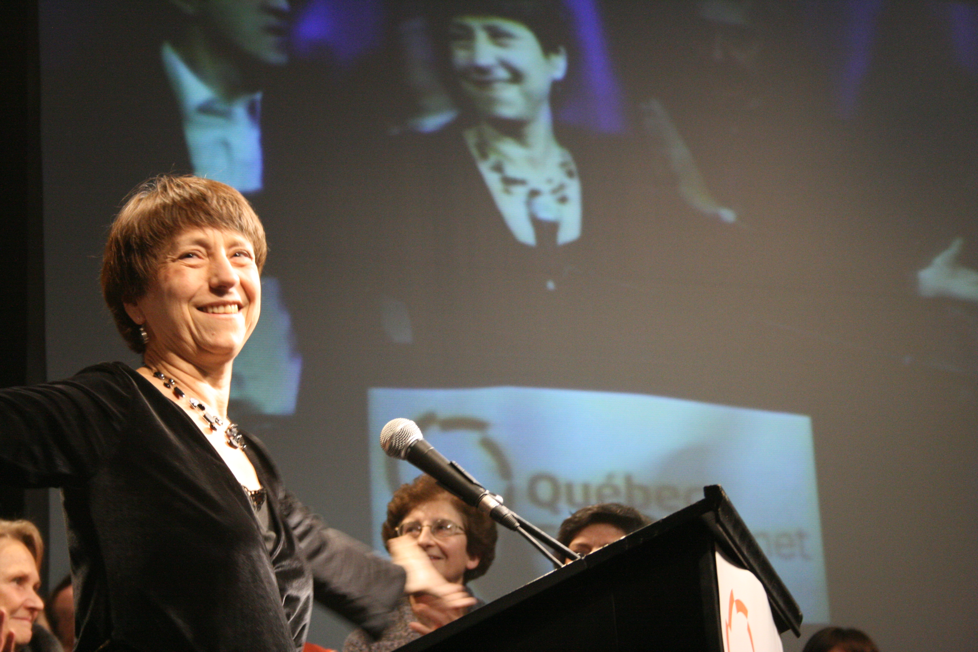 Françoise David speaking, Quebec Solidaire election victory, 8 December 2008.